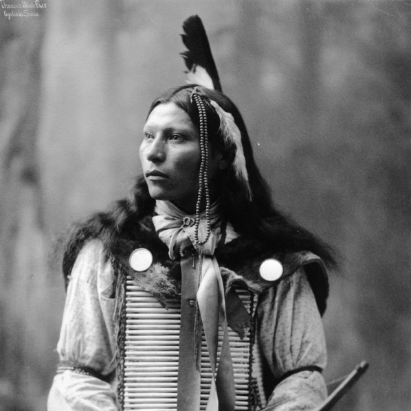 Thomas White Face — Oglala Sioux (Lakota). At Pine Ridge Indian Reservation.